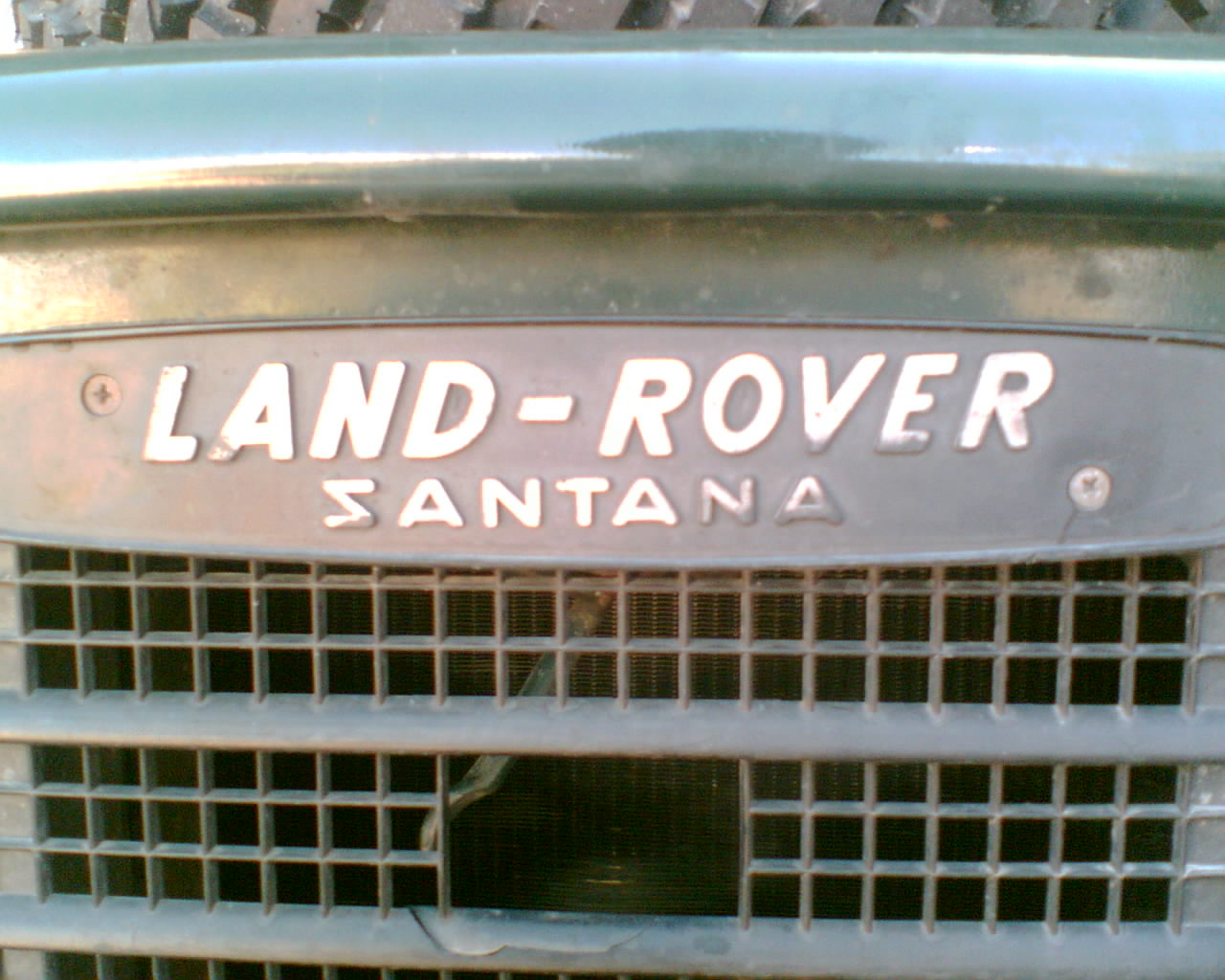 Badge from a Land Rover Santana from Spain. Photo was made by myself. Logo eines Land Rover Santana aus Spanien. Foto habe ich selber gemacht. Emblema de un Land Rover Santana de España. Esta foto hice yo.